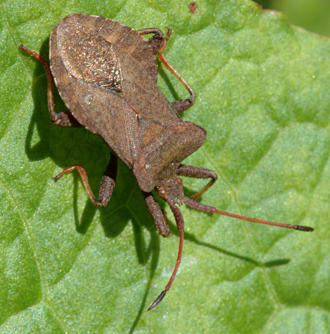 Coreus marginatus (dock bug), Verulamium Park, St Albans, Hertfordshire, England.